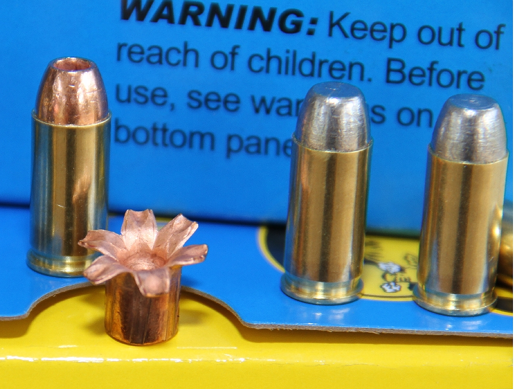 Modern versions of the .32 ACP include expanding bullets and sometimes heavier projectiles. The lead-free hollowpoint expands reliably in a variety of media